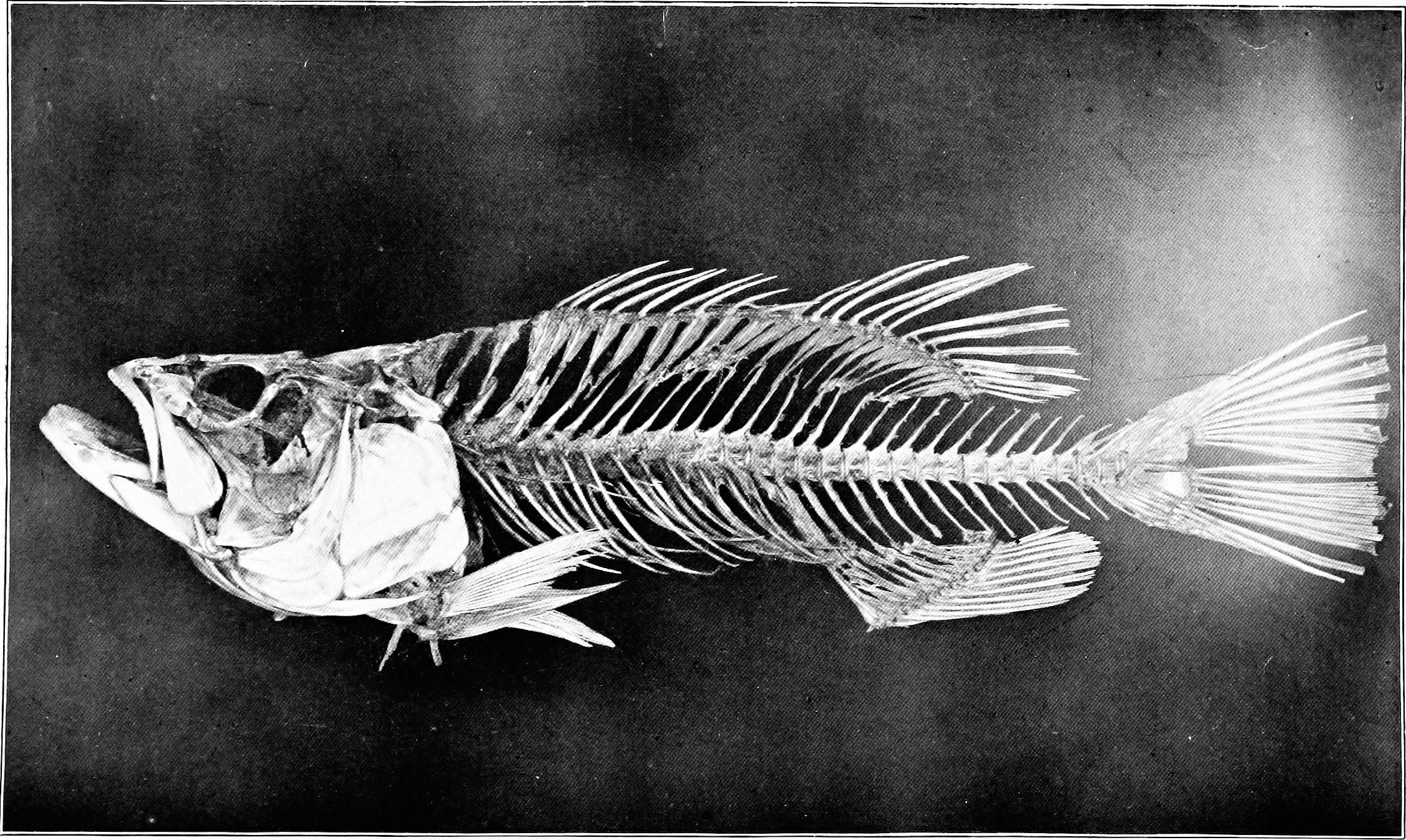 Title: The skeleton of the black bass Year: 1900 (1900s) Authors: Shufeldt, Robert W. (Robert Wilson), 1850-1934 Subjects: Black bass Publisher: Washington, Govt. Print. Off. Text Appearing Before Image: 1^2 a ^«^ Cornell UniversityLibrary The original of this book is inthe Cornell University Library. There are no known copyright restrictions inthe United States on the use of the text. U. S. COMMISSION OF FISH AND FISHERIES,GEORGE M. BOWERS, Commissioner. THE SKELETON OF THE BLACK BASS. BY Dr. R. W. SHUKELDX. ,;j:»;f Extracted from U. S, Fish Commission Bnlletiu for 1899. Pages 311 to 320. Plate 44. WASHINGTON: GOVERNMENT PRINTING OPPIOE.1900. hj^^\^L Bull. U, S. F, C. 1899 (Toface page 311.) Plate 44. Text Appearing After Image: UJ ■^ THE SKELETON OF THE BLACK BASS. By Dr. R. W. SHUFELDT. Upward of twenty years ago a special interest was taken by me in the osteologyof the large-mouth black bass (Micropterus salmoides) from having discovered in theskeletons of one or two specimens of that species a pair of free ribs articulating withthe base of the skull or occiput. As this peculiar anatomical character had neverbeen noted by me before in any of the true bony fishes (Teleostei), it was at the timedeemed worthy of scientific record, and so, under the title of Osteology of the large-mouthed black bass (Micropterus salmoides),^ there was printed in Science, of Cam-bridge, Mass., May 2,1884, a brief account of this interesting point in the skeletonof Micropterus. It was there stated that this peculiarity consists in a pair of freely articulatedribs at the base of the occiput. Their heads are received in a shallow facet on eitherside situated just above and rather internal to the foramen for the vagus nerve.Immedcu31924024782439